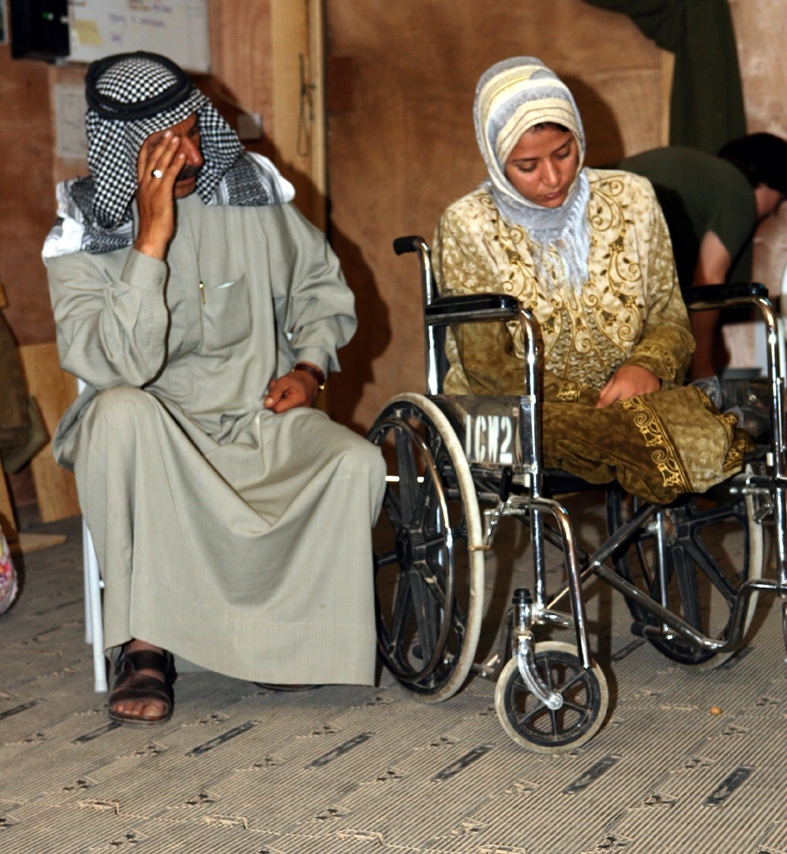 Amal, a disabled 28-year-old woman from Karabilah, Iraq, recently sought assistance from U.S. Marines in Al Qa'im near the Iraqi-Syrian border, for medical assistance to help her �to one day be able to walk again.� Amal lost both of her legs during combat operations conducted by Coalition Forces against insurgents last year in her hometown near the Iraq-Syria border. Marines here from the 3rd Civil Affairs Group - a U.S. military unit responsible for assisting Iraqi communities with rebuilding local government infrastructure, commerce and economies � are jumpstarting the lengthy process of finding more advanced medical aid for the woman by working with Iraqi doctors at provincial-level medical facilities where resources for military doctors conducted a medical evaluation of the woman for an updated prognosis of her condition. Here, Amal waits for the results of the evaluation with a family member. U.S. military doctors also evaluated two Iraqi children, a five-year-old boy and a four-year-old girl, with genetic diseases. �Once we establish what's wrong physically, we can engage with the Iraqi health system and government agencies to see if we can get help,� said Lt. Col. Larry L. White, the civil military operations center director for the Al Qa'im region.